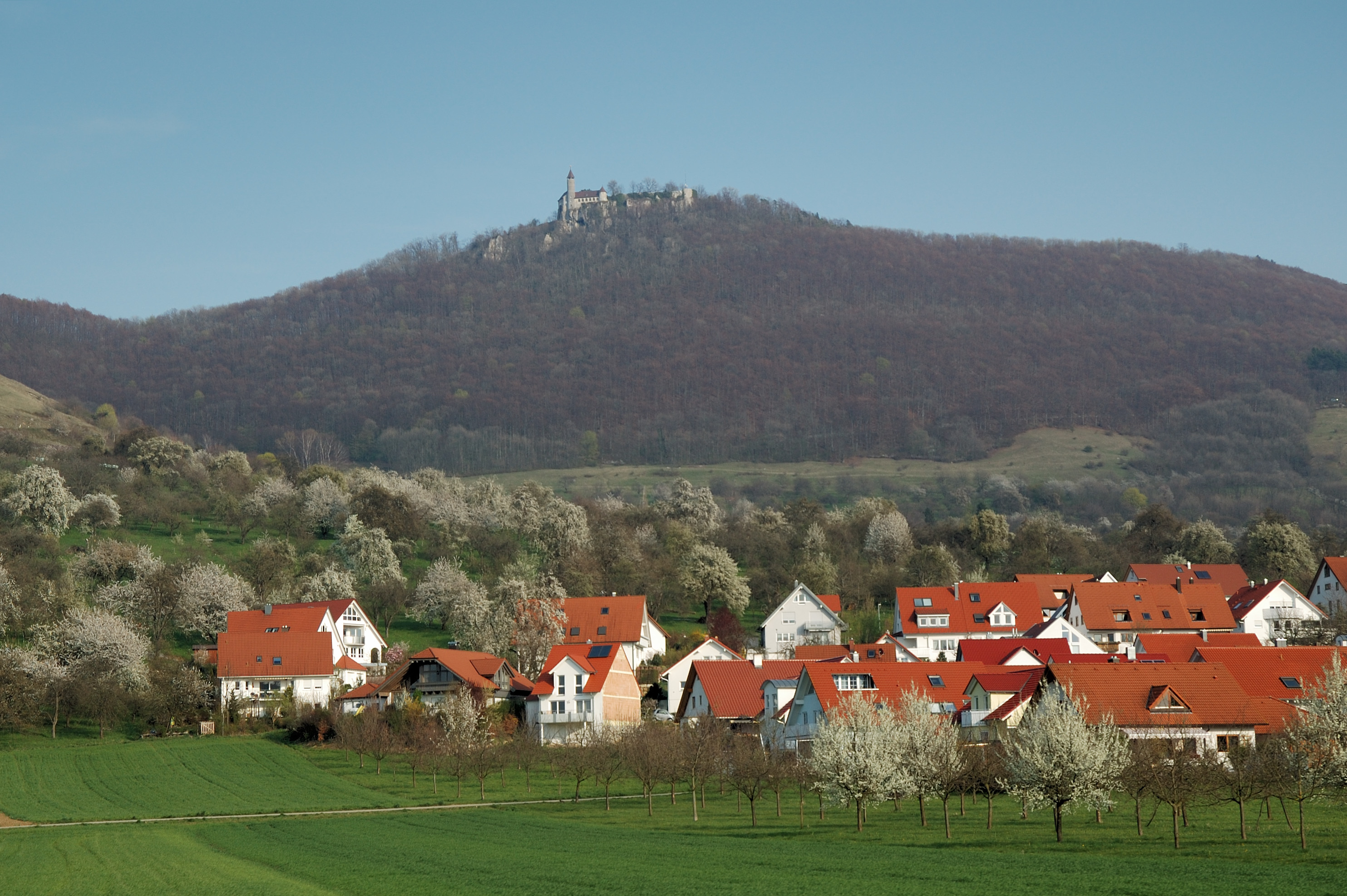 Owen and Teck castle, Germany.